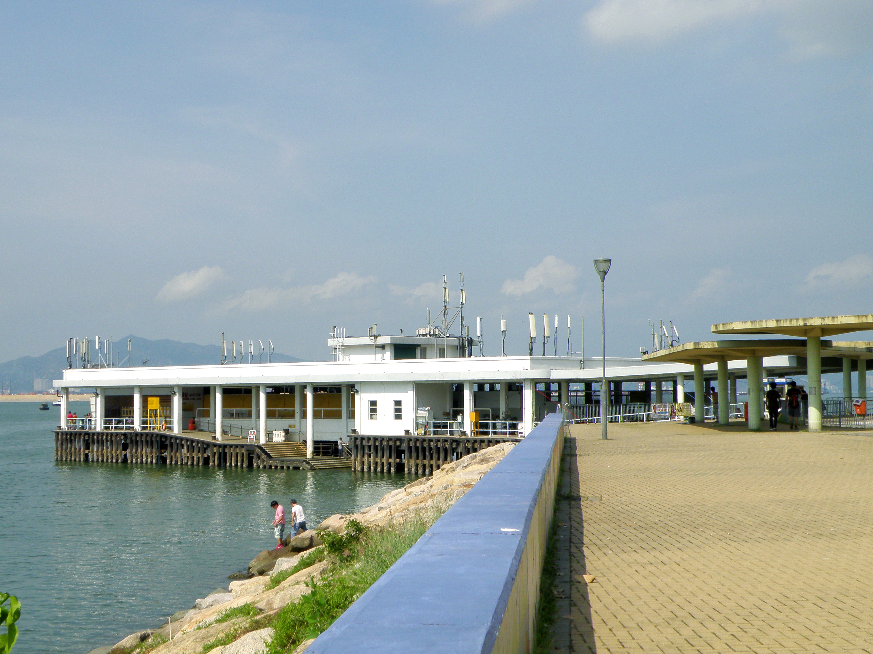 New Development Ferry Pier in Tung Chung, Hong Kong.